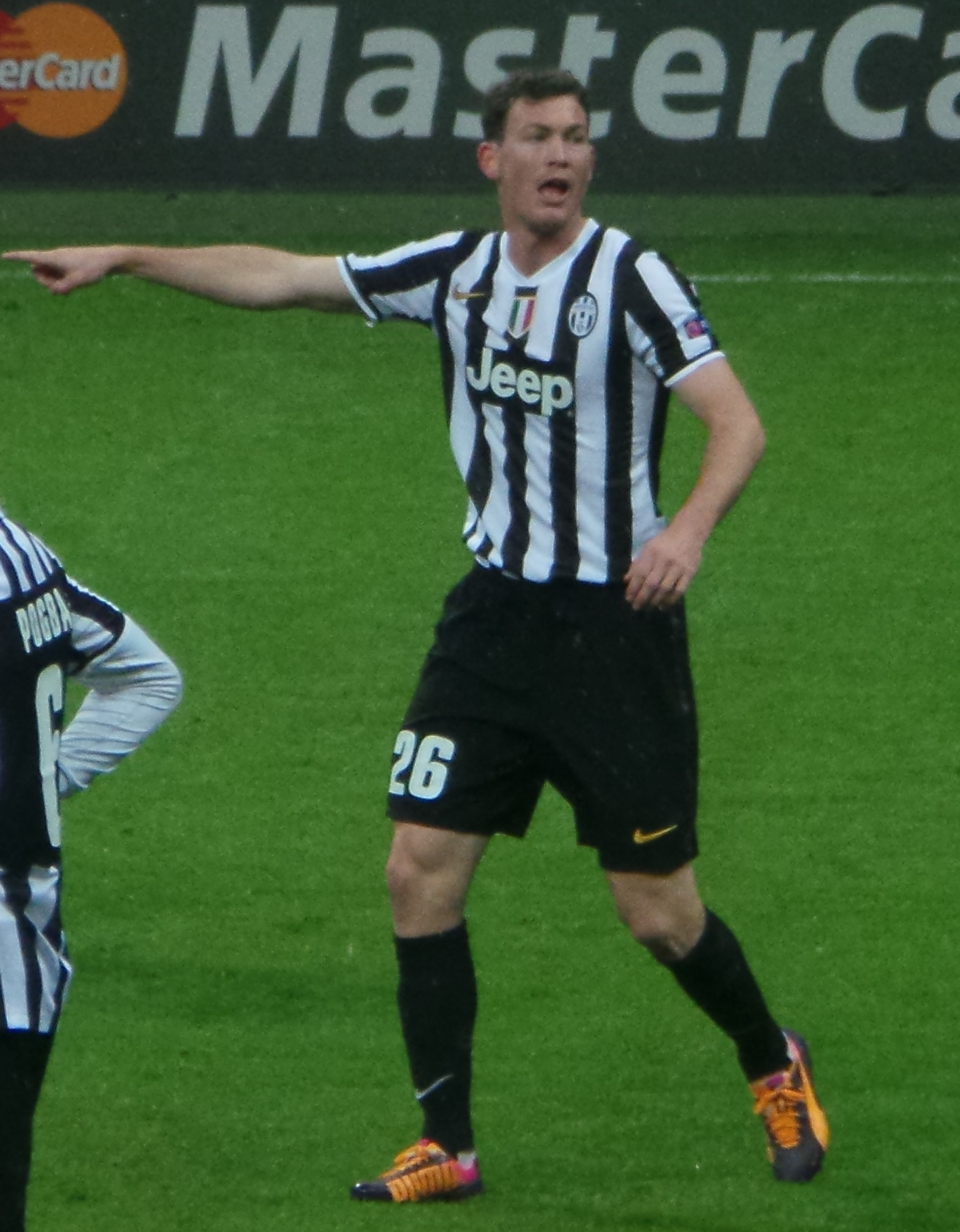 Stephan Lichtsteiner